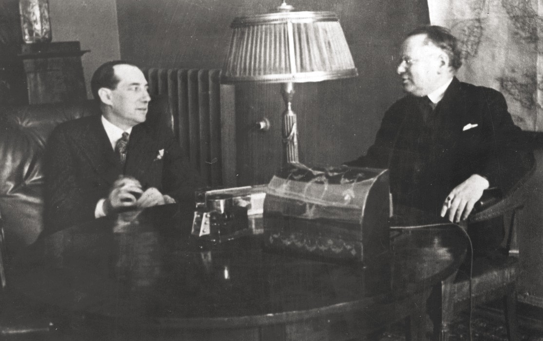 Józef Beck and Maxim Litvinov during Beck visit in Moscow February 1934